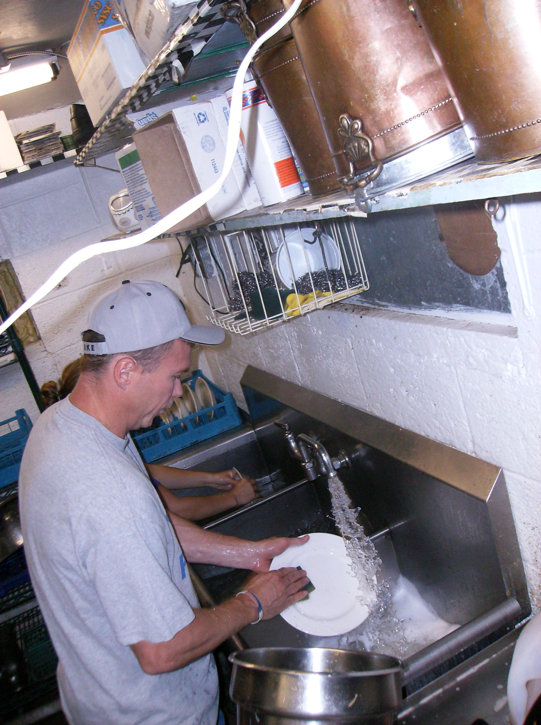 Washing dishes at the Our Community Place Soup Kitchen held at Little Grill Collective on Monday, June 28, 2008 in Harrisonburg, Virginia.